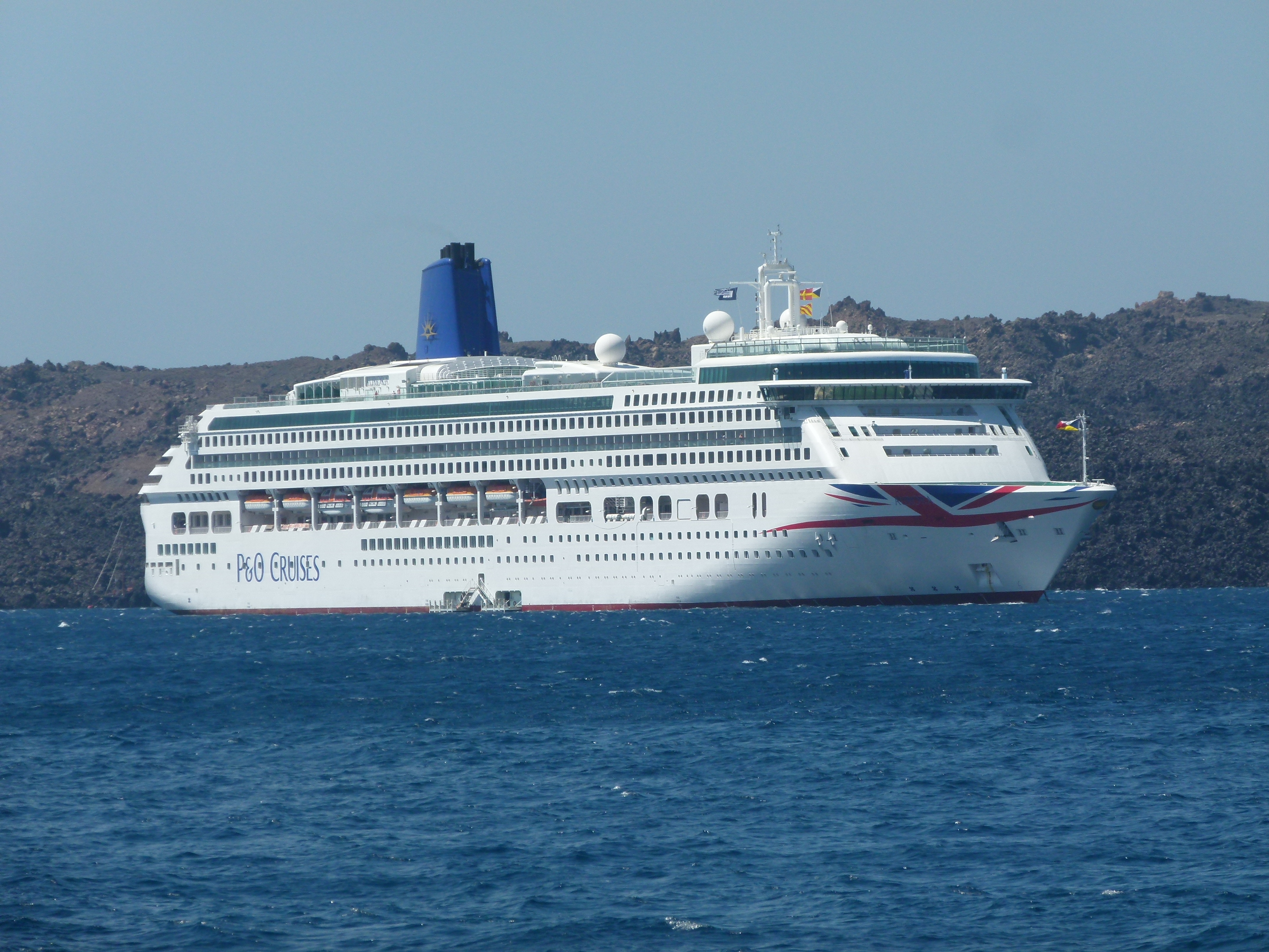 P&O Cruises MV Aurora at anchor in the Santorini basin. Ship is in post 2014 refit paint scheme - Union flag on bows plus blue funnel.